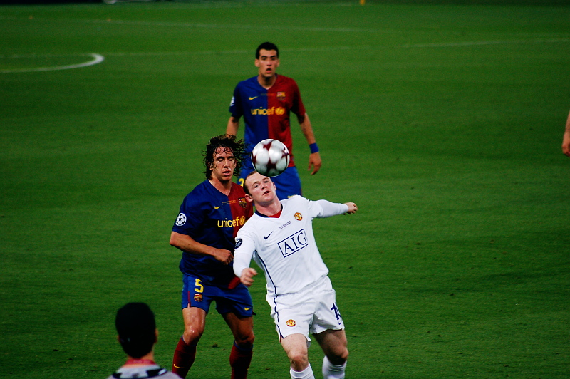 Wayne Rooney of Manchester United defended by Carles Puyol, Sergio Busquets in the background